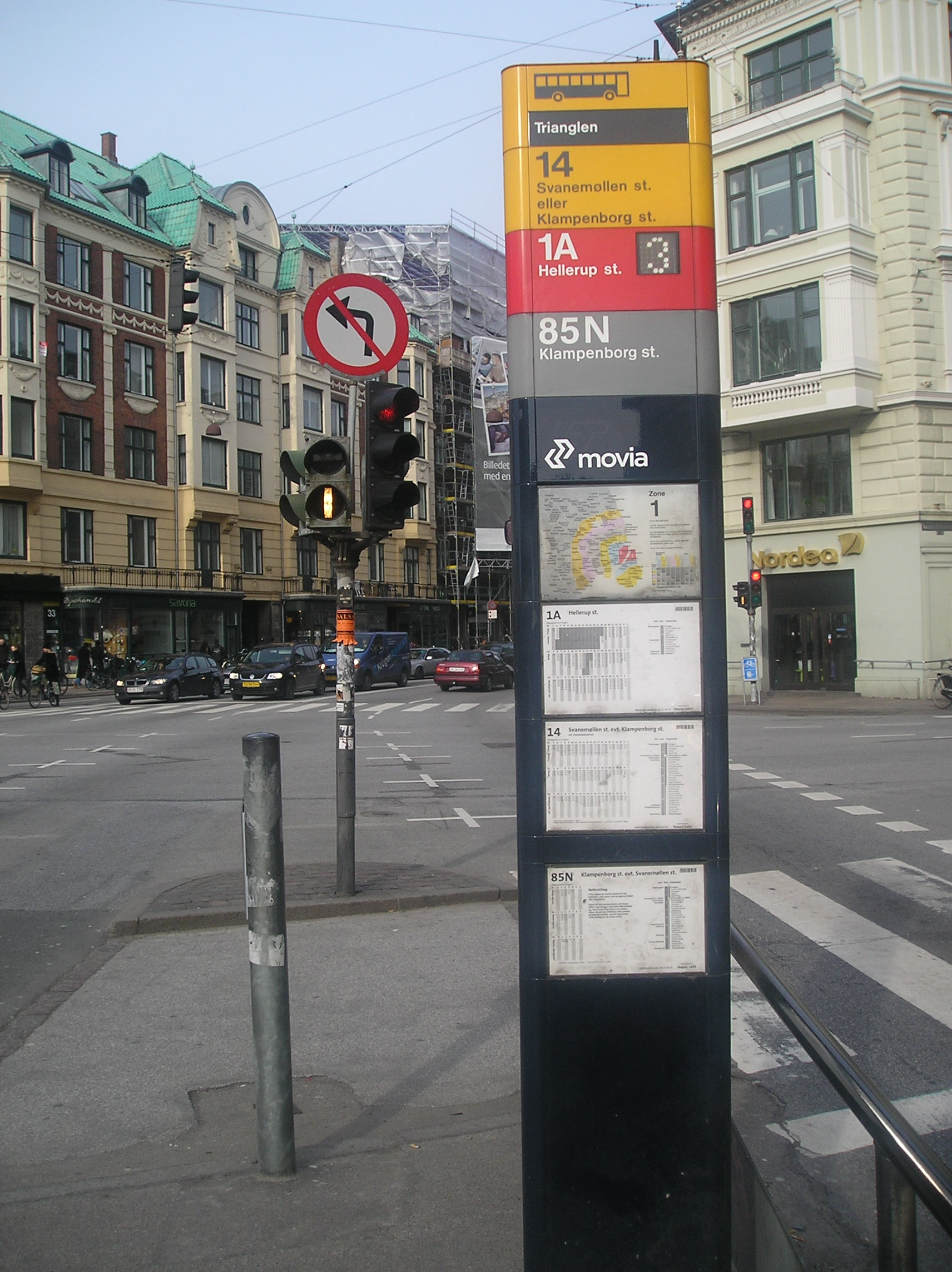 Bus stop with new Movia logo on the square Trianglen in Copenhagen.